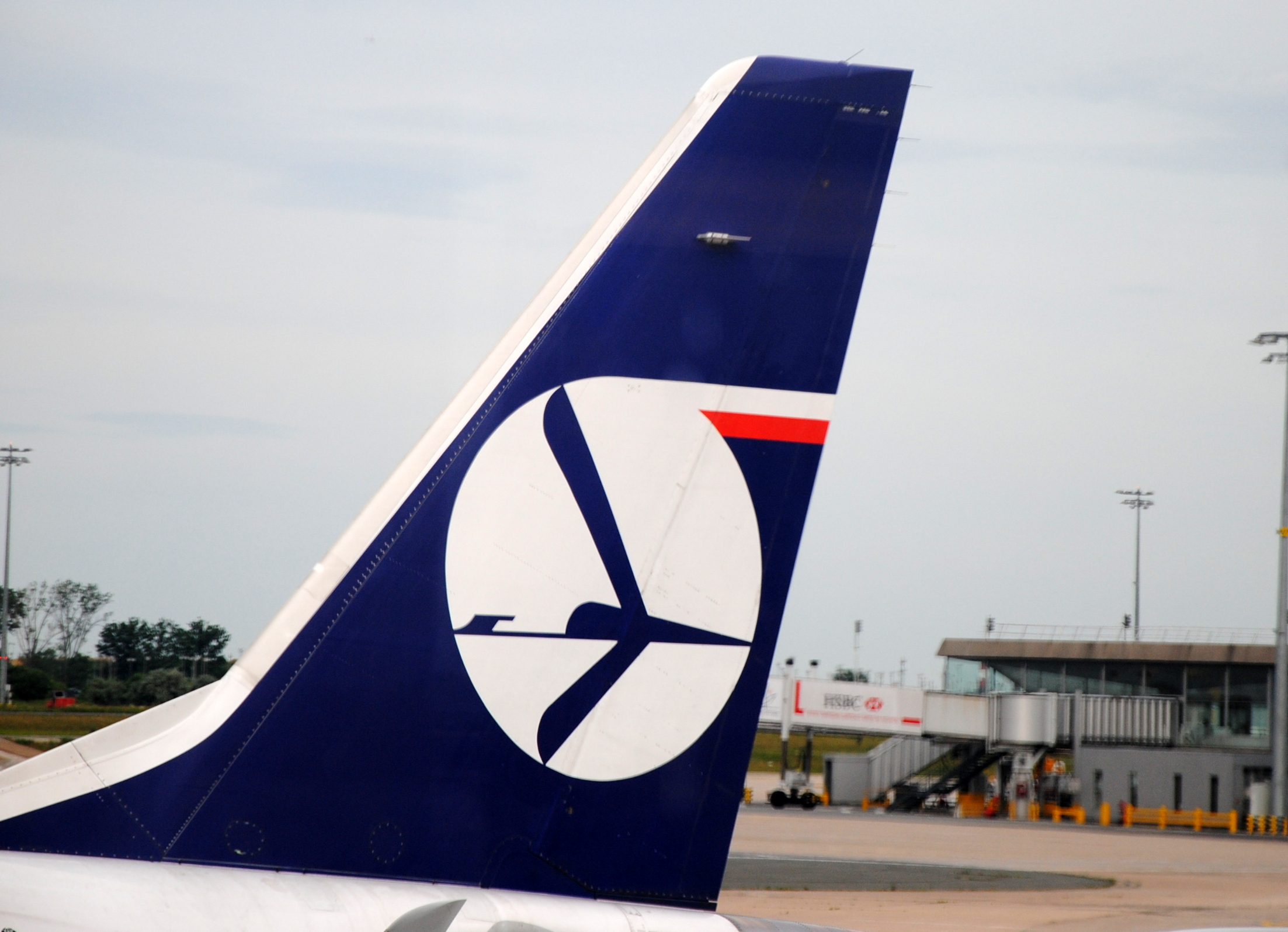 LOT Polish Airlines